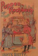 title page of the Puppenkochbuch by Christine Charlotte Riedl, published in 1854